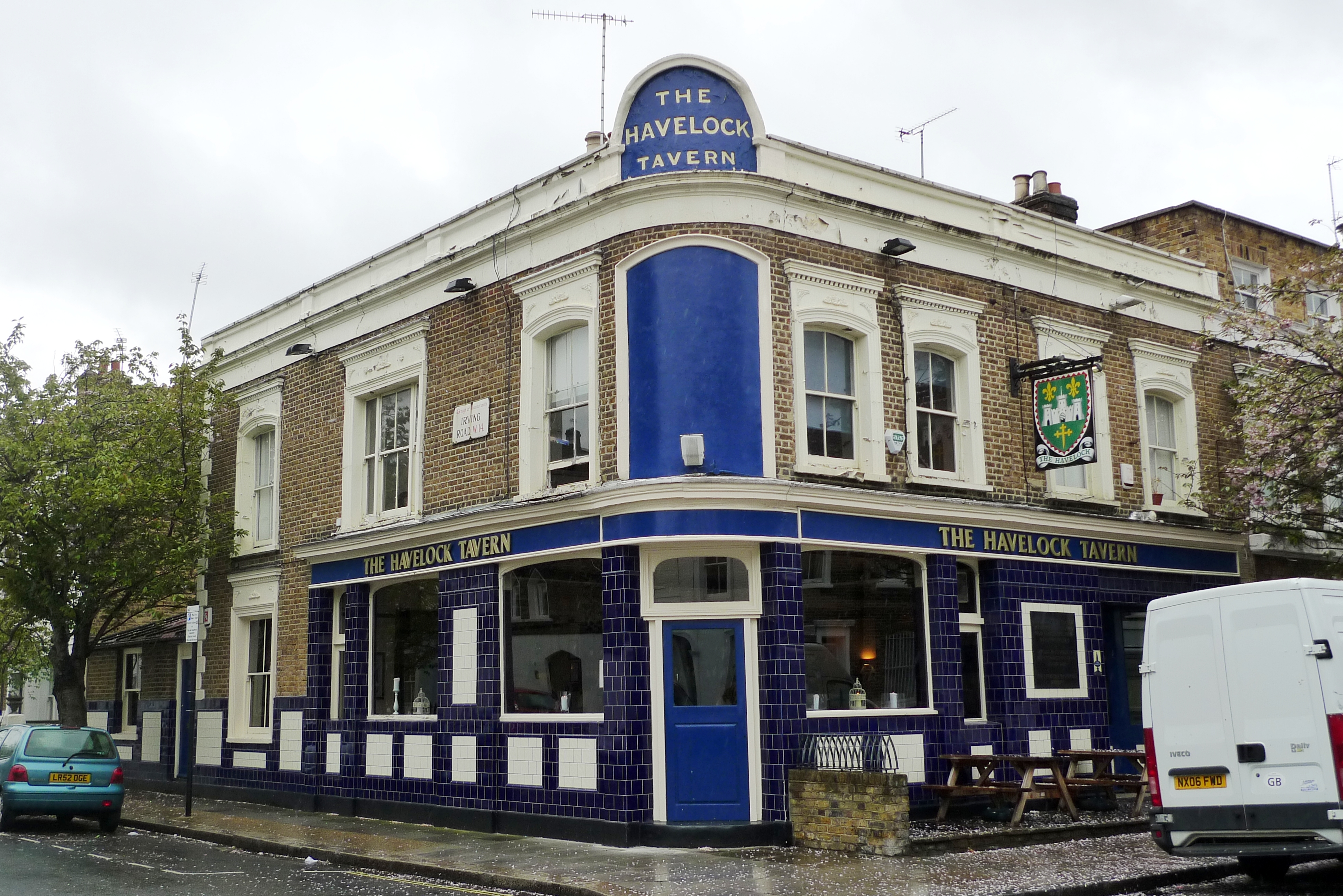 A decent corner pub with great food. (Photo of dinner menu, Apr 2012, with link to food photo.) Address: 57 Masbro Road. Owner: Greene King [Capital Pub Company] (website). Links: Randomness Guide to London Fancyapint Pubs Galore Beer in the Evening London Eating Dead Pubs (history)